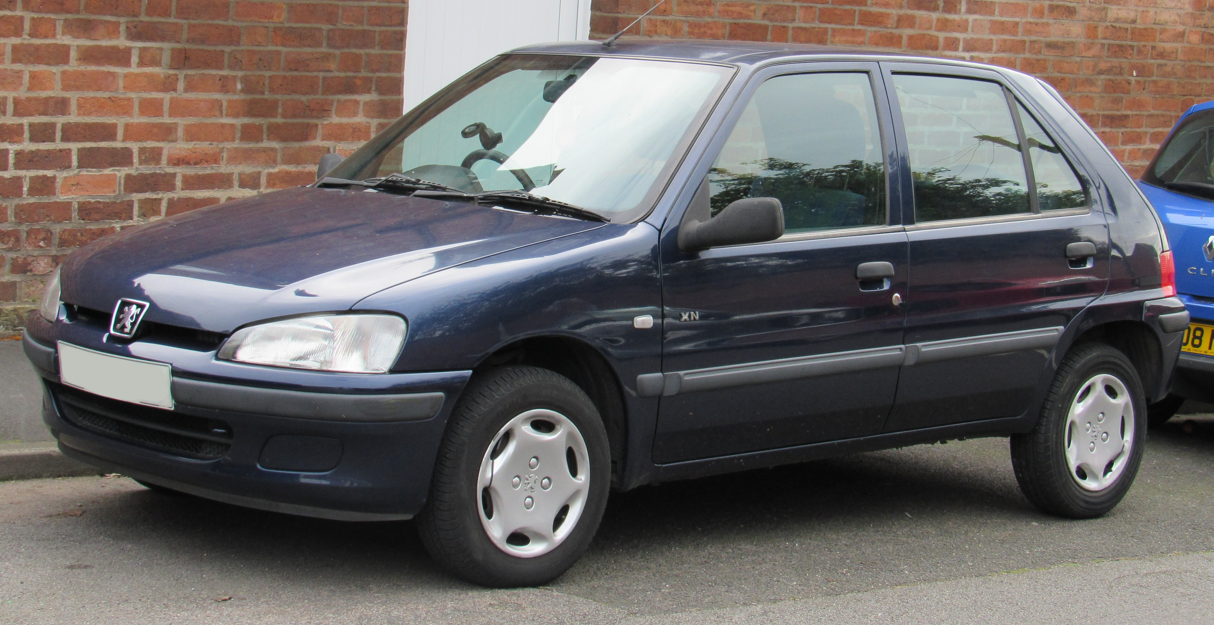 2001 Peugeot 106 XN Zest 2 1.1 Front Taken in Leamington Spa